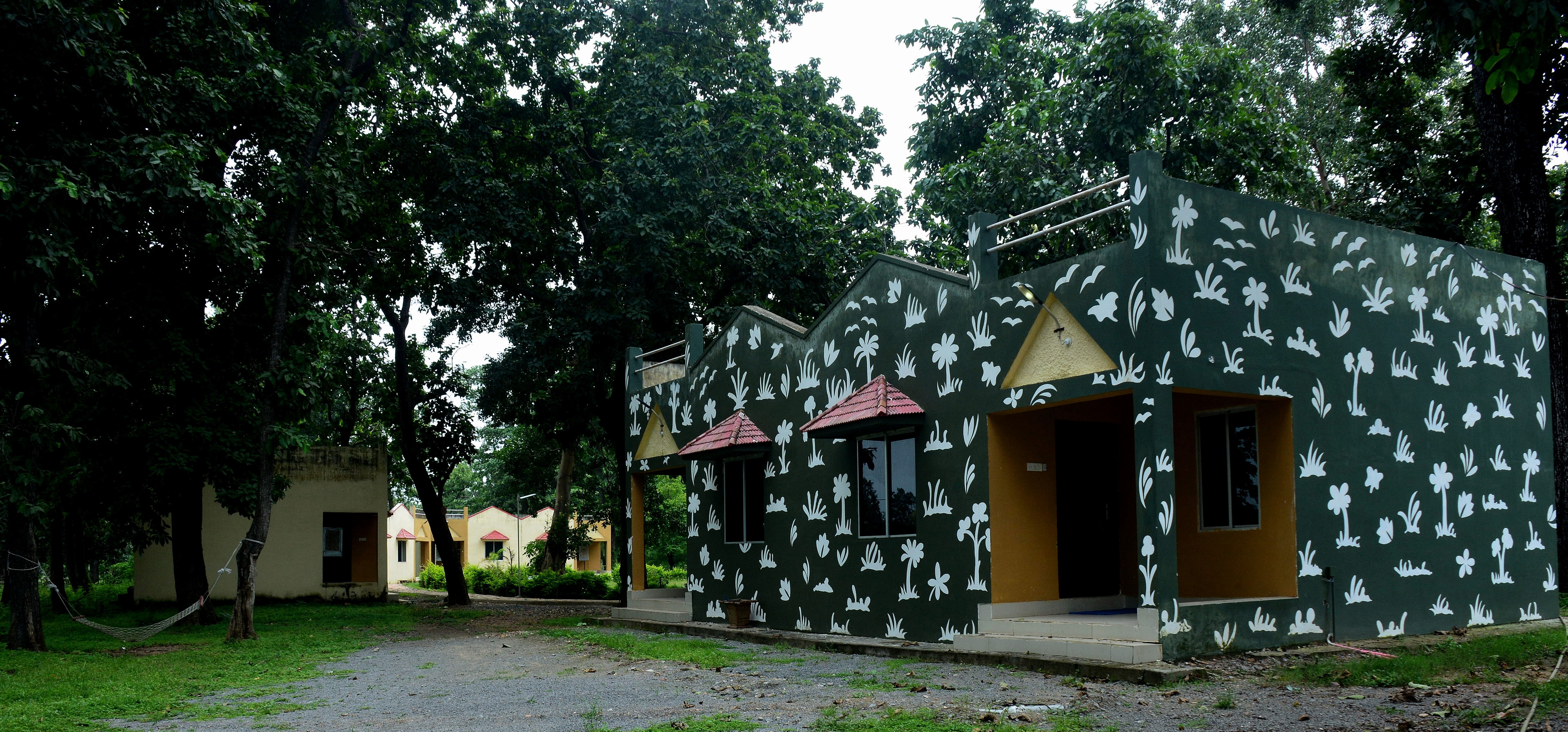 Guest house of Achanakmar Tiger reserve is only and ideal place to take food and rest during visit of Tiger reserve. Reasonably charged and maintained by the Department of Forest.